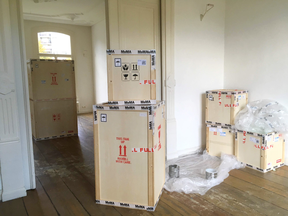 Main room of the Villa de Bank art space, during an exhibition in collaboration with MoMA with works by artist Melle Nieling